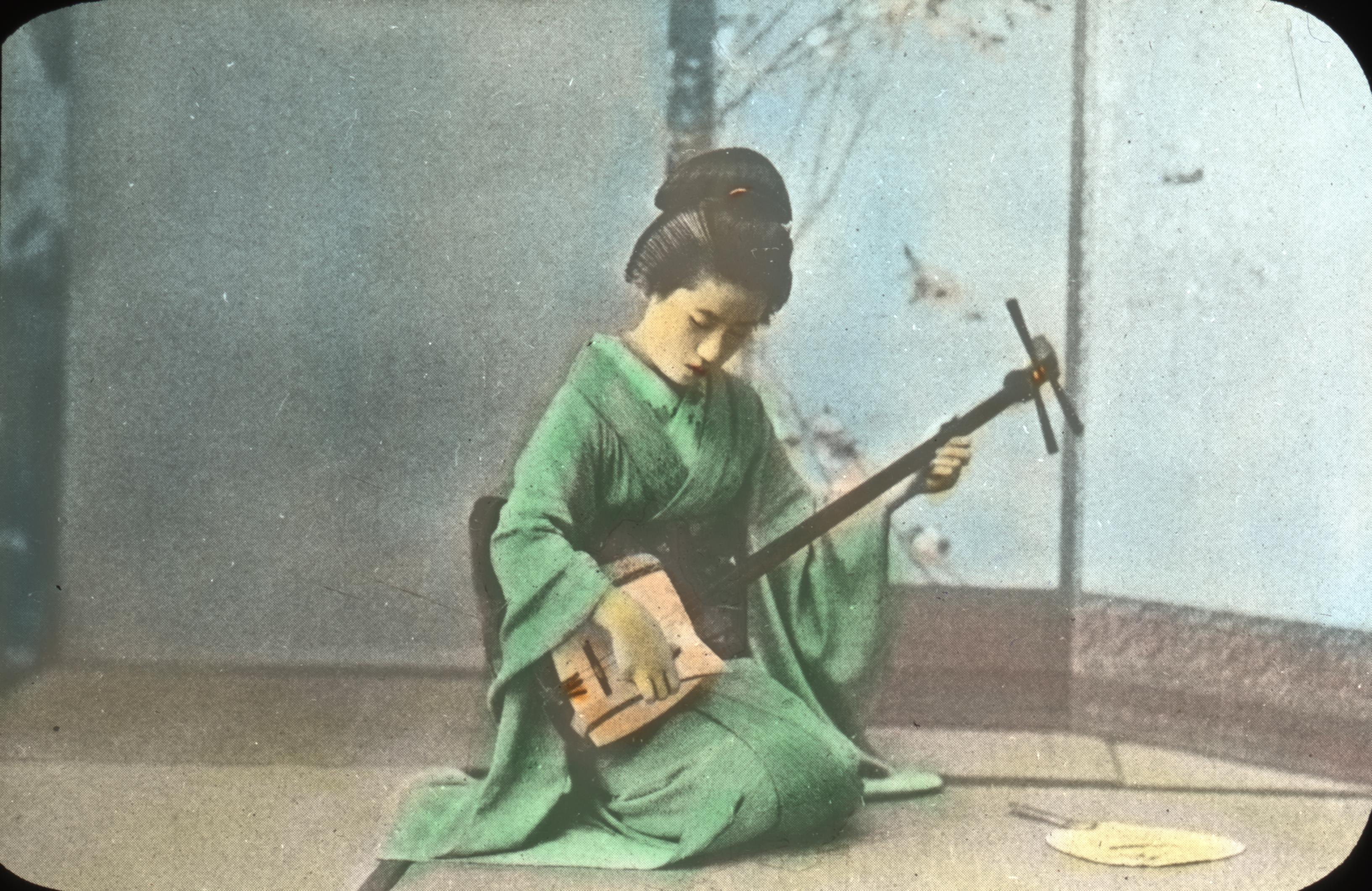 Image Description from historic lecture booklet: "The geisha or singing girl to the "Western" mind fills out the romantic ideal of modern Japan. To the native she is simply a sublimated waitress with dancing and singing trimmings, but she is also a chosen vehicle of Japanese romance. Visions of her dressed in showy silken robes waving a large fan, her black hair marvelously coifed, a fixed smile on her face and moving in rhythmic steps with a special flowing elegance of gesture, rise before those who have seen her at her high functions. Ever to the accompaniment of the tinkling strings of the of the samisen and the full beat of the tsuzumi that picture comes back to the foreigner as the flower of his reminiscence of Japan. " Original Collection: Visual Instruction Department Lantern Slides Item Number: P217:set 060 021 You can find this image by searching for the item number by clicking here. Want more? You can find more digital resources online. We're happy for you to share this digital image within the spirit of The Commons; however, certain restrictions on high quality reproductions of the original physical version may apply. To read more about what “no known restrictions” means, please visit the Special Collections & Archives website, or contact staff at the OSU Special Collections & Archives Research Center for details.